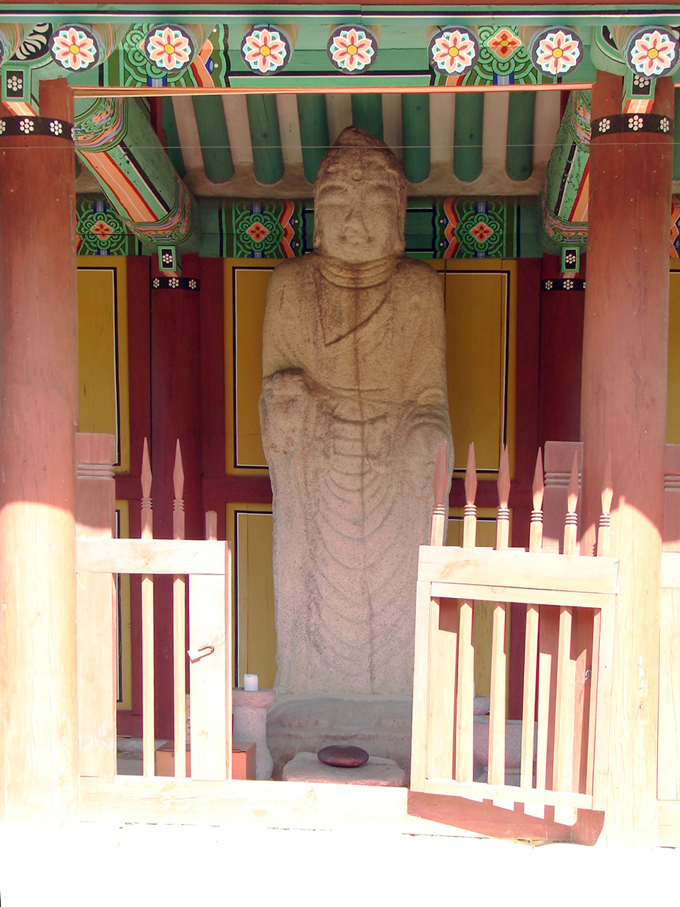 Cheongpung Cultural Properties Complex - located by the Chungjuho Lake. This complex is a reconstructtion of Cheongpung, a village that became submerged after the construction of Chungju Dam. It took three years to relocate the buildings and structures in the current site at a cost of of over 1.6 trillion won.